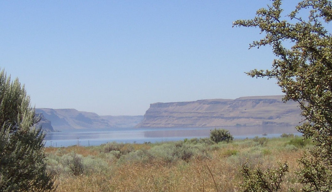 Photo of Wallula Gap on the Columbia River in Washington State, U.S.A. Walla Walla River enters to the left. Looking down on former location of Fort Nez Percés. Taken July 8th, 2006, by the individual uploading it. All rights released. You are welcome to use in any way... Enjoy - Williamborg 03:27, 9 July 2006 (UTC)